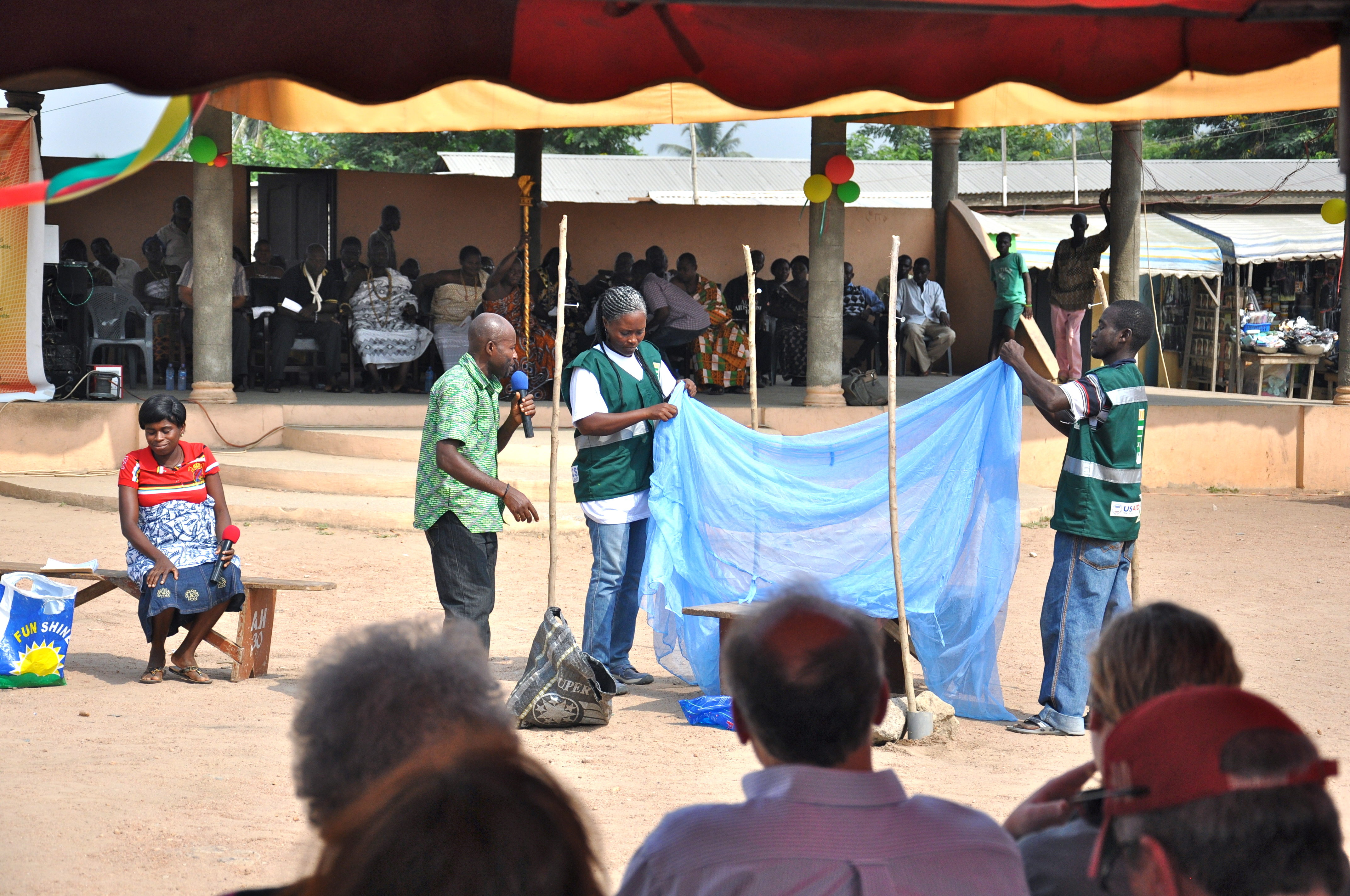 Community members perform a scene to educate others on how and why to use bednets. (USAID/Kasia McCormick) 2012